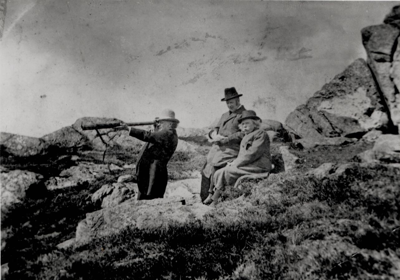 Artist: unknown Date/place: June 1900, Løvstakken/Bergen/Norway Subject: Julius Röntgen, Frants Beyer & Edvard Grieg on mount Løvstakken Medium: photographic positive, B&W Notes: none Persistent url: [#//nettbiblioteket.no/grieg-samlingen/engelsk/grieg_intro_eng.html” Original belongs to the Edvard Grieg Archives at Bergen Public Library]